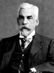 Francisco Pereira Passos, mayor of Rio de Janeiro 1902-1906